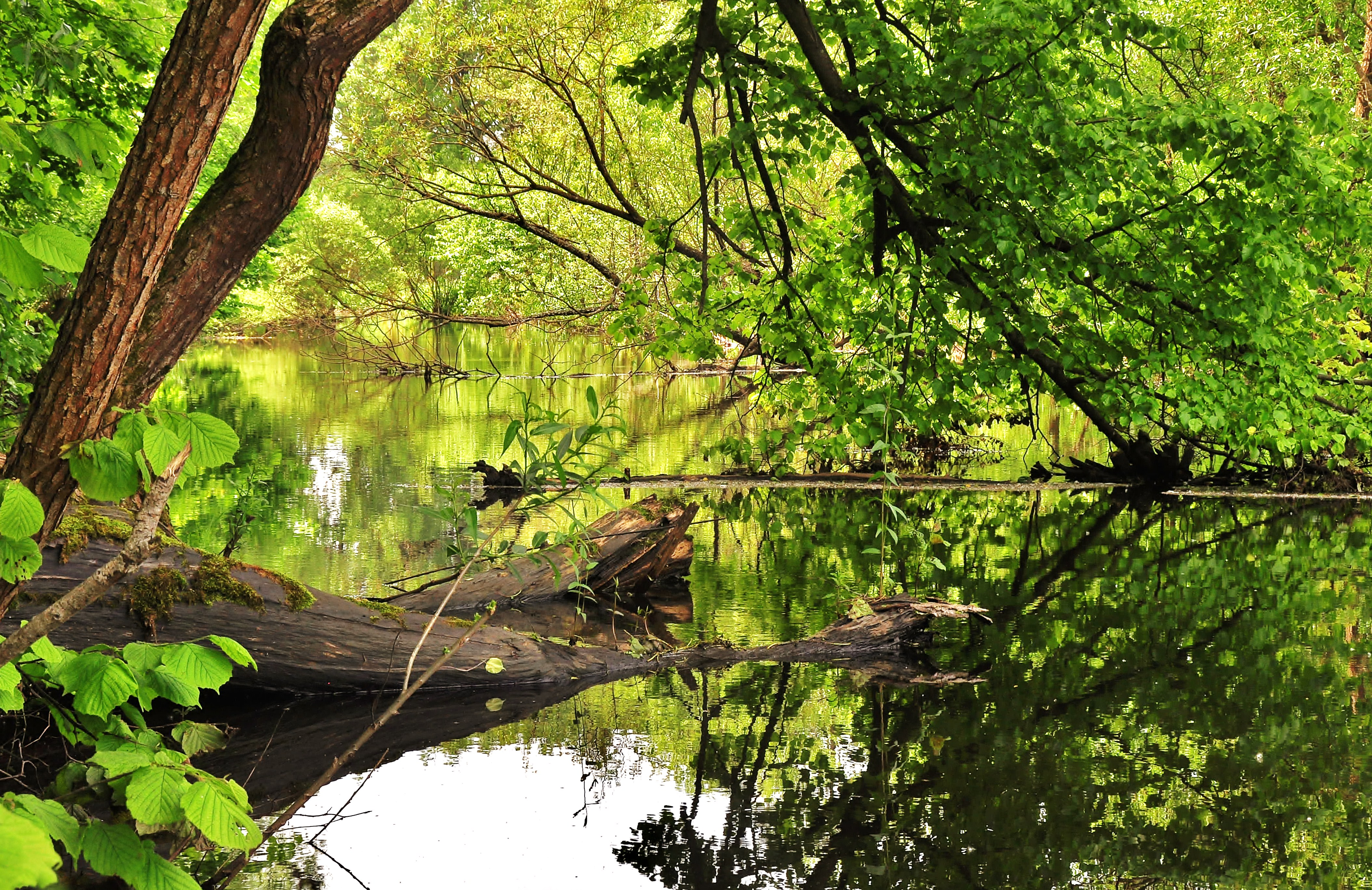 Roztochcha, Vereshchycia River, Channel along the Yaniv pond